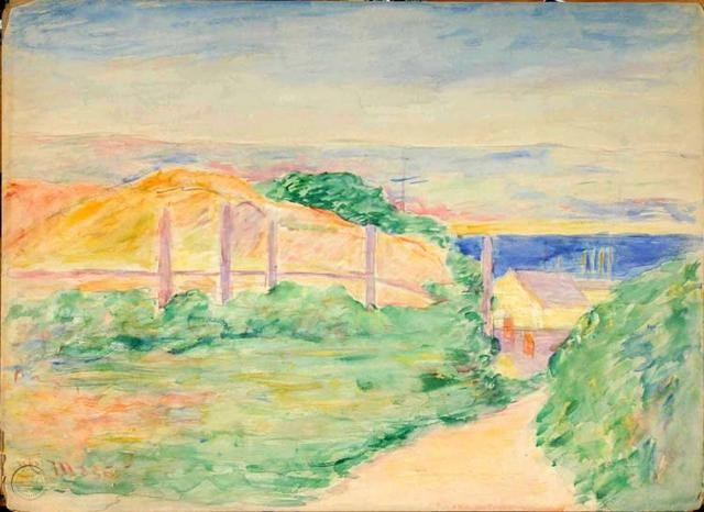 Harbor scene by Carolyn Campbell Mase 1880-1948 guess 1920